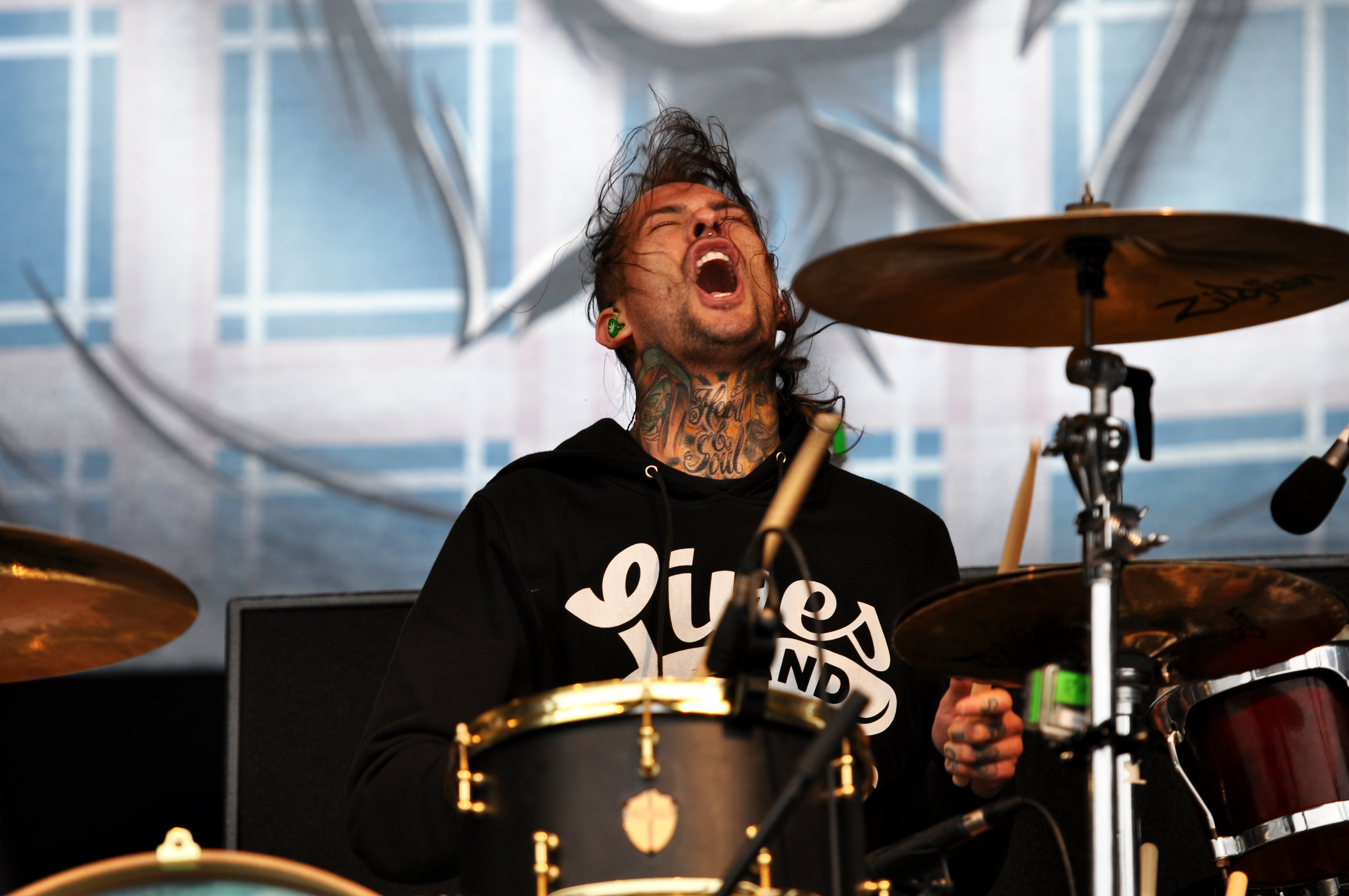 Mike Fuentes of Pierce the Veil at Rock am Ring 2013